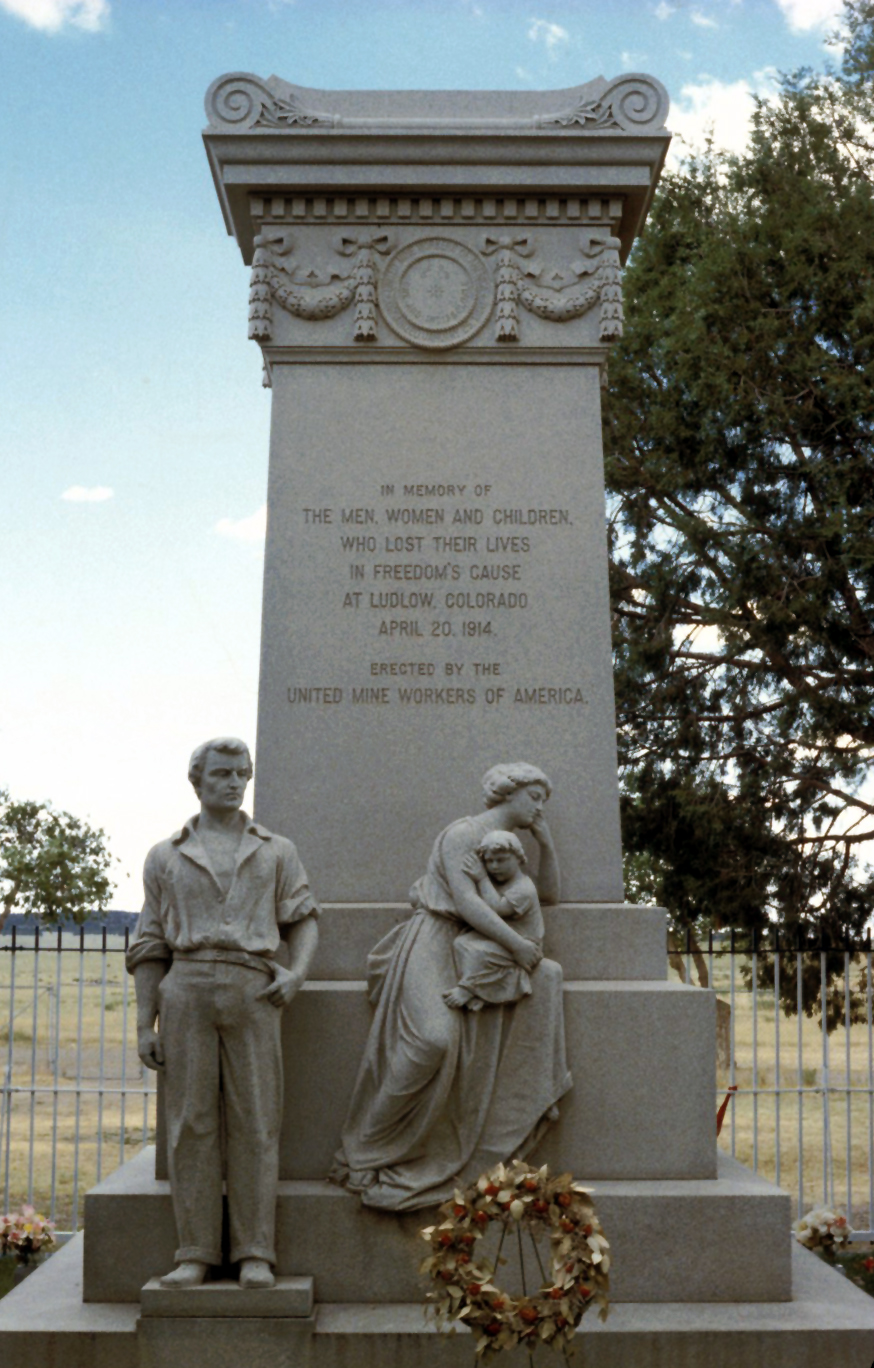 Ludlow Massacre Monument, prior to being vandalized and subsequently restored. Taken on April 28, 2005 by Mark Walker.